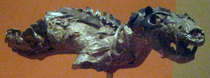 230 - 225 million years ago Early Triassic